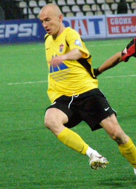 Gabriel Fernando Atz in action for FC Khimki